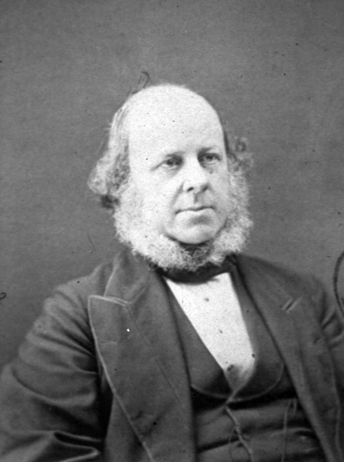 John Braxton Hicks, British obstetrician